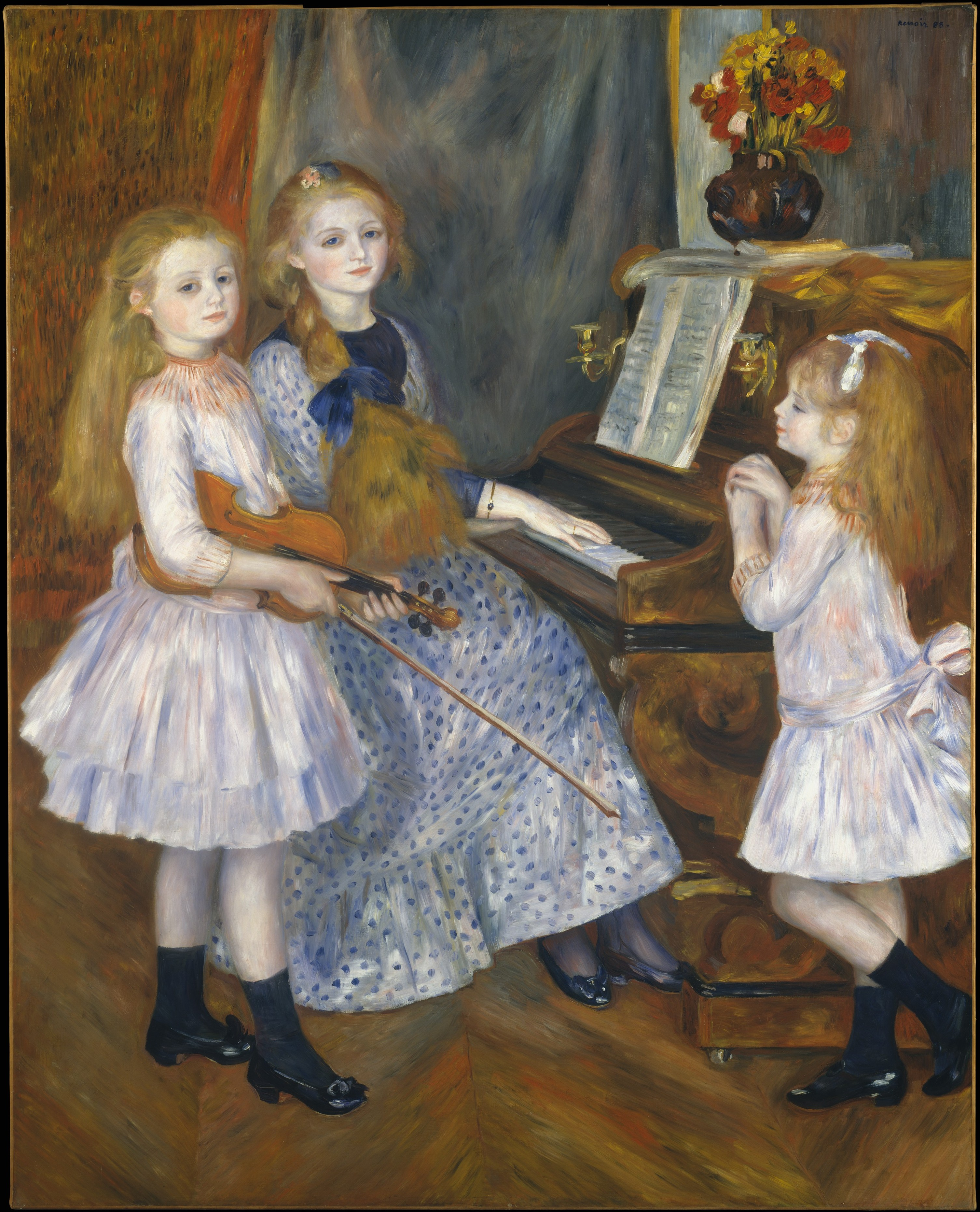 The Daughters of Catulle Mendès, Huguette (1871–1964), Claudine (1876–1937), and Helyonne (1879–1955) Artist: Auguste Renoir (French, Limoges 1841–1919 Cagnes-sur-Mer) Date: 1888 Medium: Oil on canvas Dimensions: 63 3/4 x 51 1/8 in. (161.9 x 129.9 cm) Classification: Paintings Credit Line: The Walter H. and Leonore Annenberg Collection, Gift of Walter H. and Leonore Annenberg, 1998, Bequest of Walter H. Annenberg, 2002 Hoping to recapture the success he had achieved with Madame Georges Charpentier and Her Children at the Salon of 1879, Renoir sought to paint the daughters of his friend Catulle Mendès. In addition to the girls’ manifest charm, he undoubtedly counted on the notoriety of their bohemian parents to gain attention: their father was a Symbolist poet and publisher, and their mother was the virtuoso pianist Augusta Holmès. Renoir completed the commission in a matter of weeks and immediately exhibited the large canvas in May 1888, but the response to his new manner of painting, with its intense hues and schematized faces, was unenthusiastic.